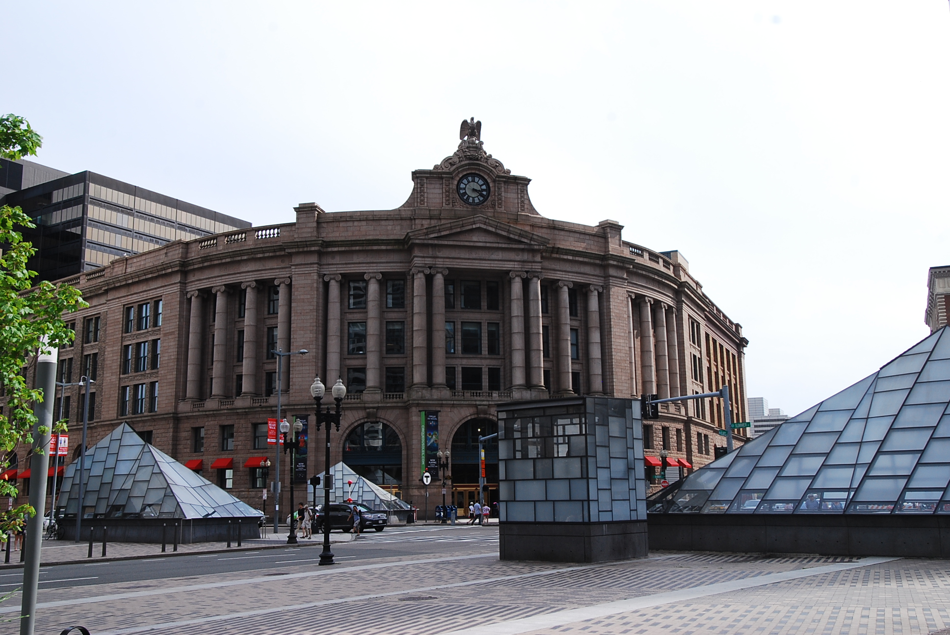 South Station headhouse and subway entrances in Dewey Square in August 2012